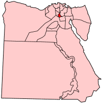 Map of Egypt showing Al Qalyubiyah (Kalyubeya) governorate. Made by User:Golbez based on PD maps.